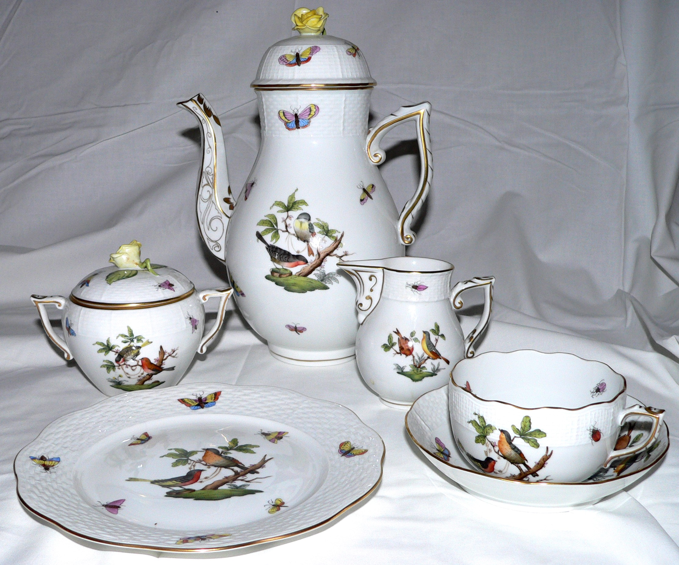 Porcelain Dinnerware from Herend of Hungary. A teapot, a sugar, a creamer, a teacup and saucer and a salad plate in the Herend pattern of Rothschild Bird.